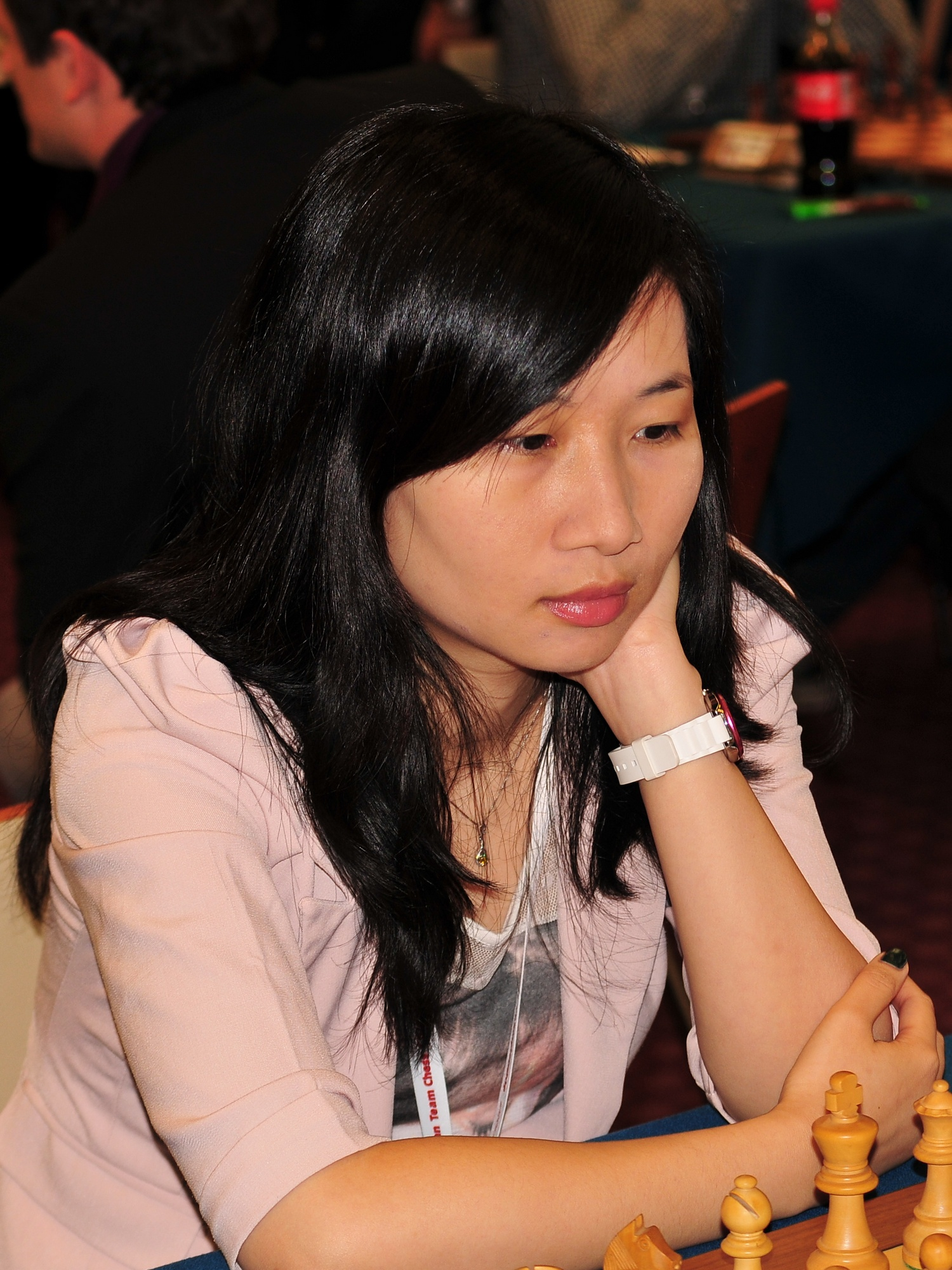 GM Hoàng Thanh Trang, European Chess Team Championship Warsaw 2013